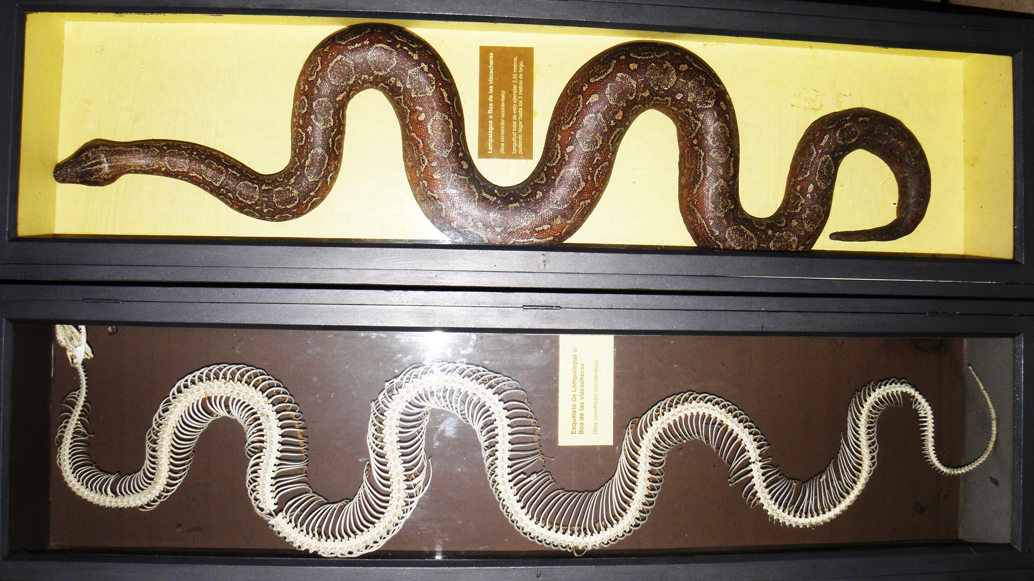 Boa constrictor occidentalis. Taxidermy specimen and skeleton.